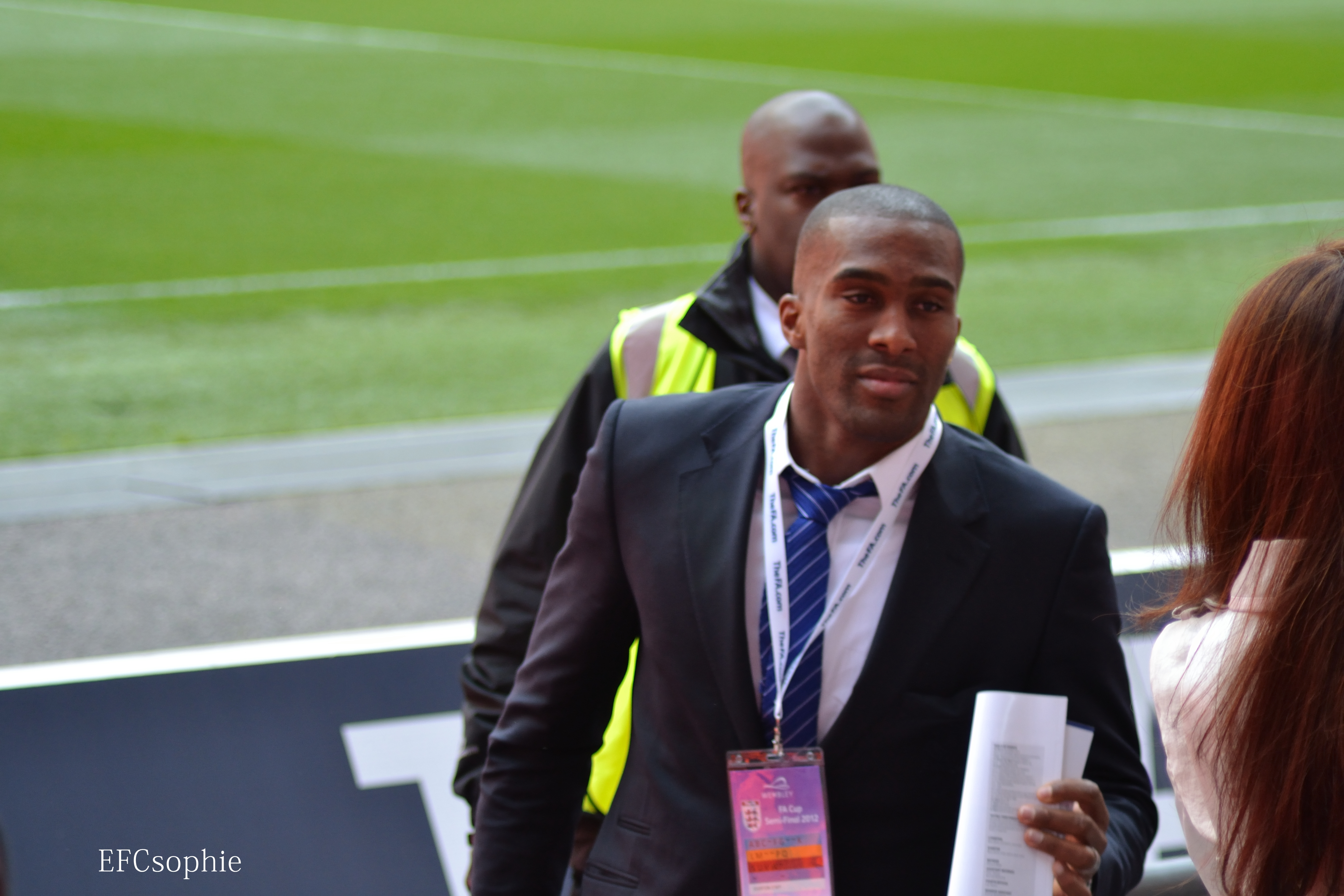 Distin with Everton